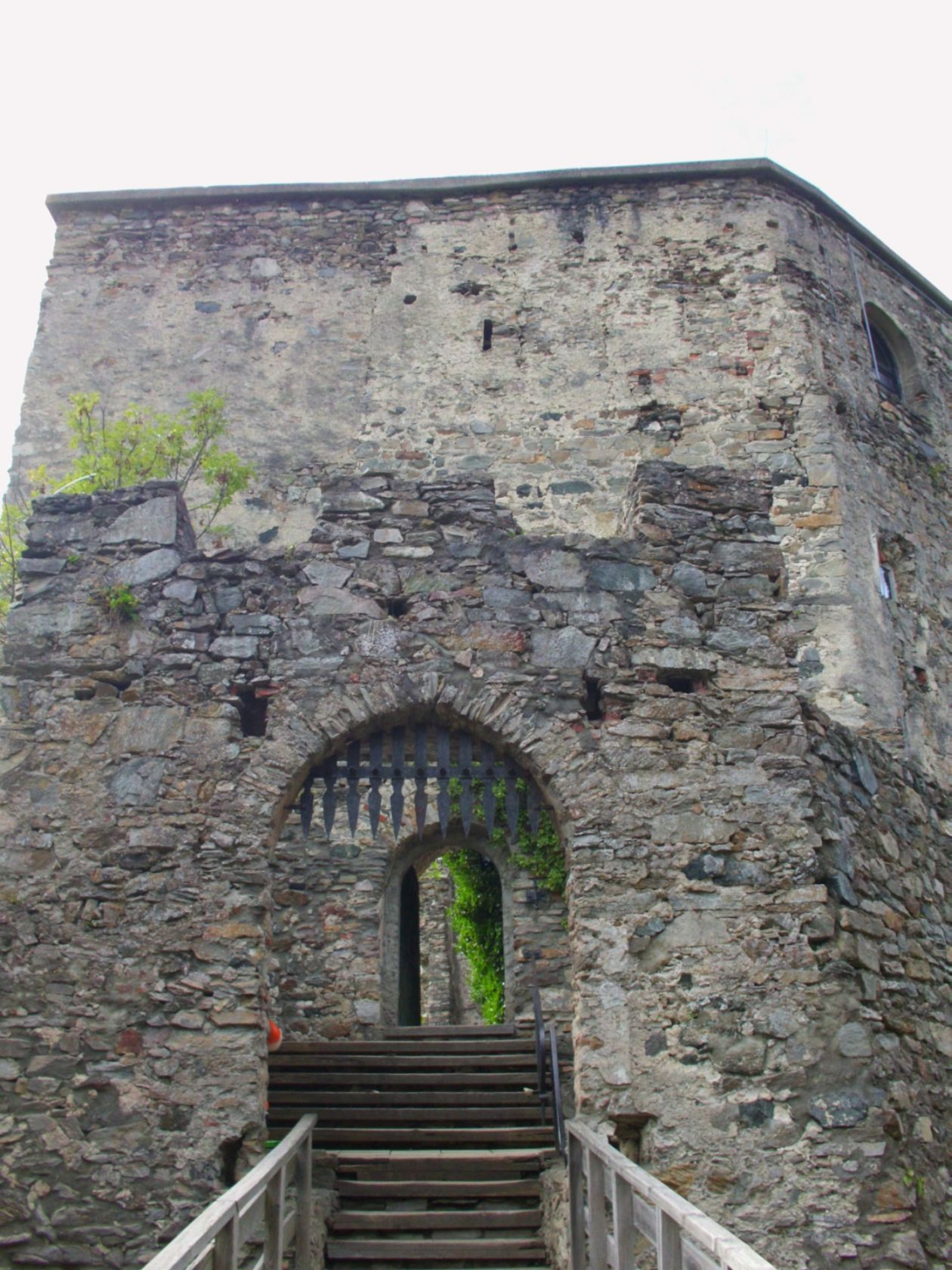 Castle Sommeregg - Castle gate with portcullis